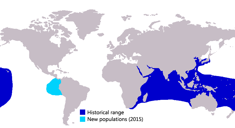 Distribution of giant trevally, Caranx ignobilis using map based on GDFL image